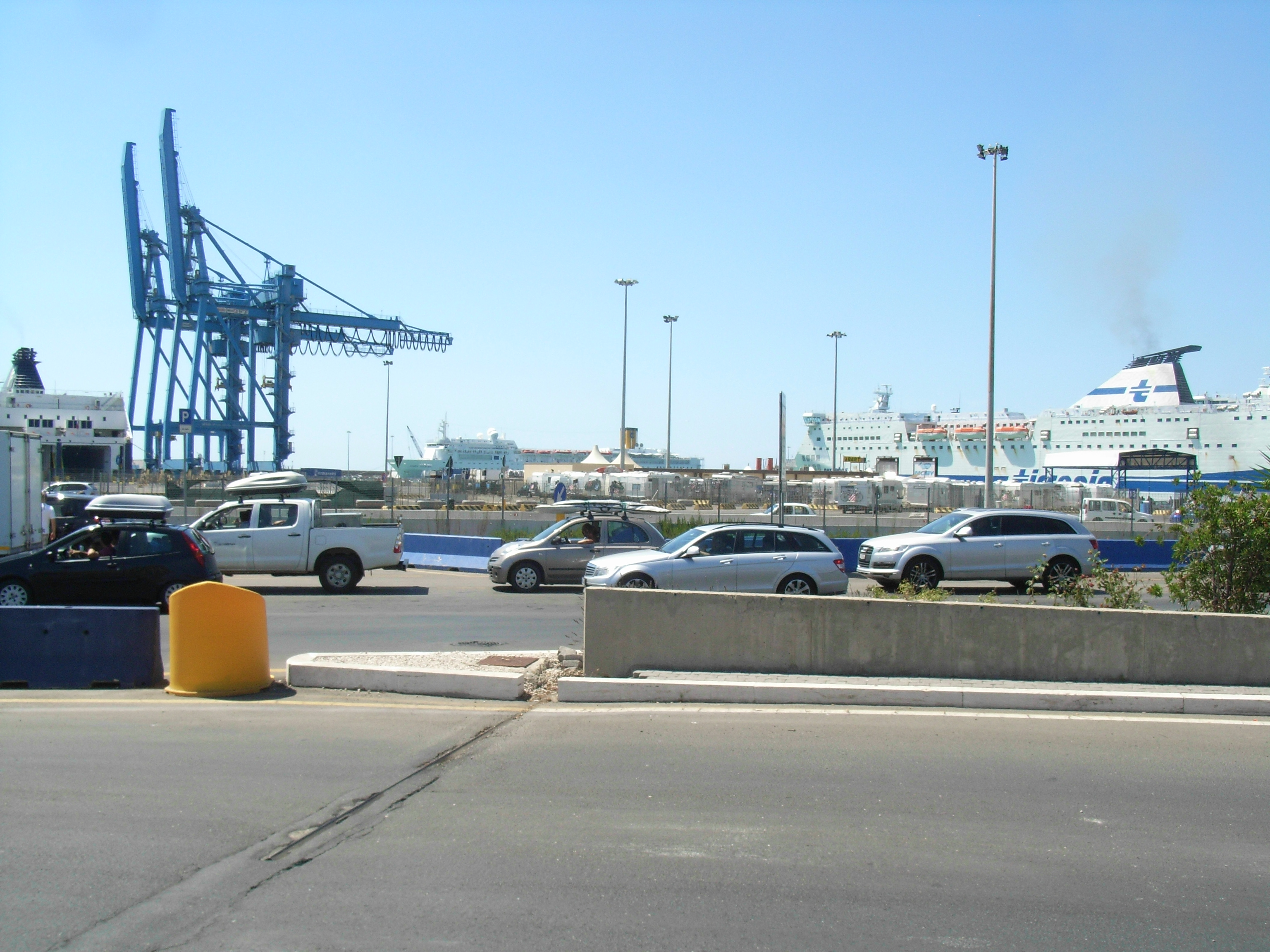 As file